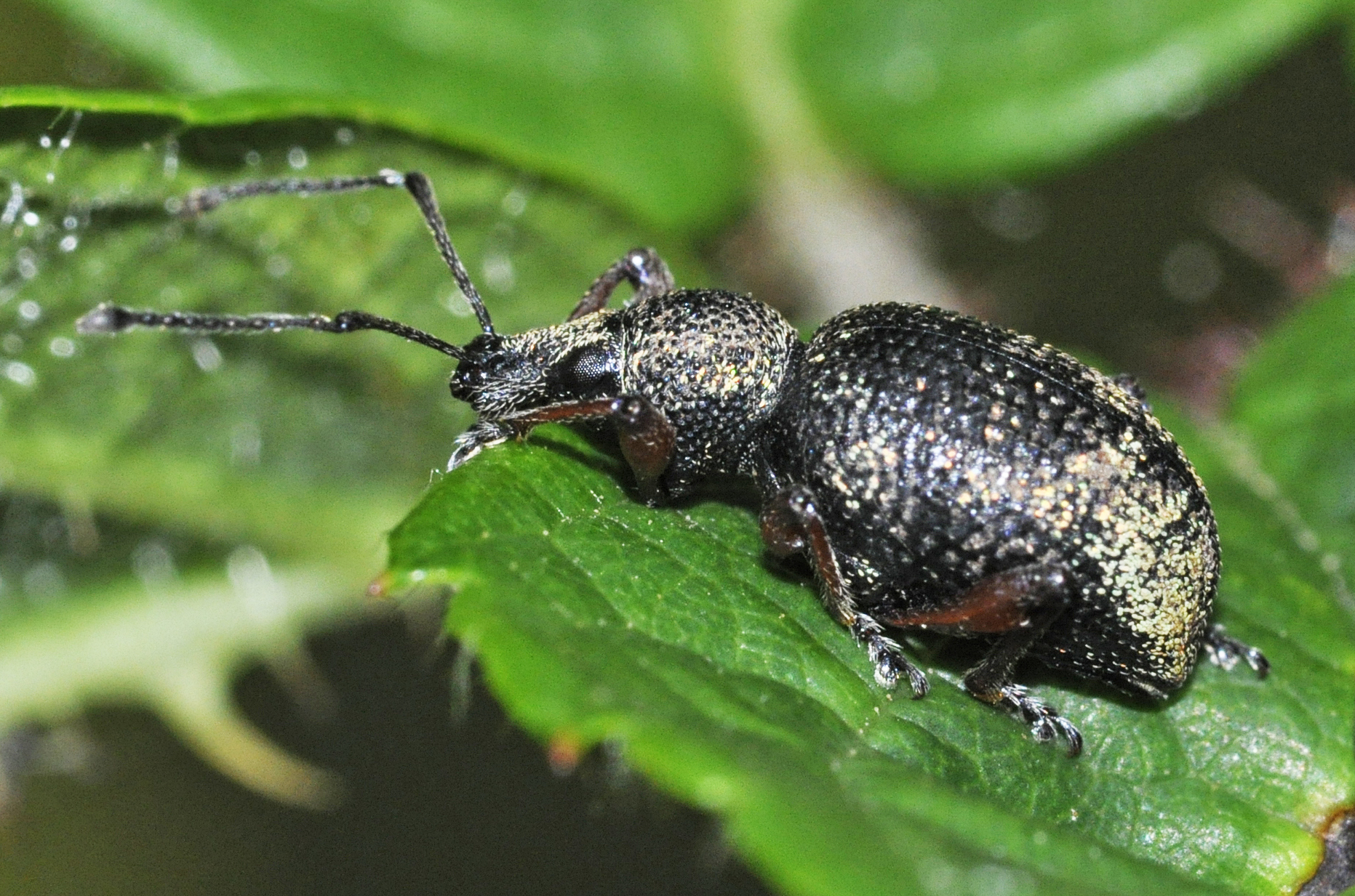 Otiorhynchus lepidopterus (Fabricius, 1794). Determined by kerbtier.de, Nov 2019. Germany: S Bayern, Landkreis Bad Tölz, Walchensee, village, 810 m.